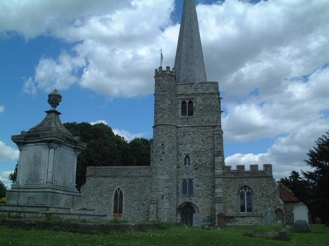 St Werburgh's Church, Hoo West Front of Hoo Church